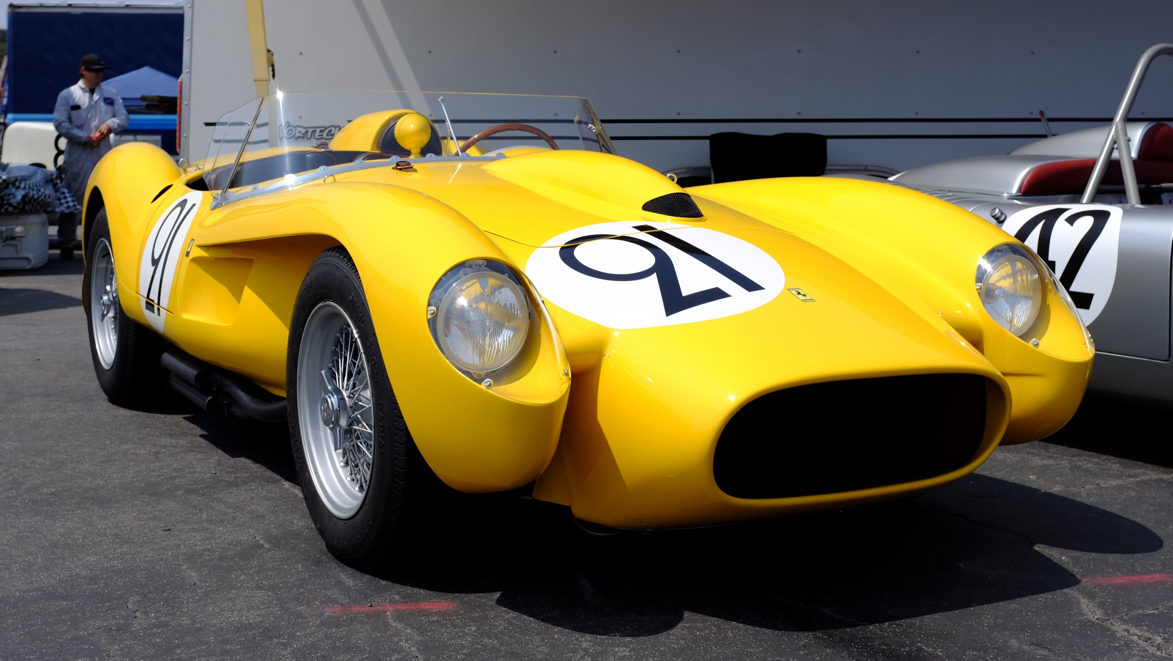 1958 Ferrari 250 Testa Rossa Scaglietti Spider, front view. Believed to be chassis 0736TR. Photographed at the 2018 Rolex Monterey Historic Motorsport Reunion.